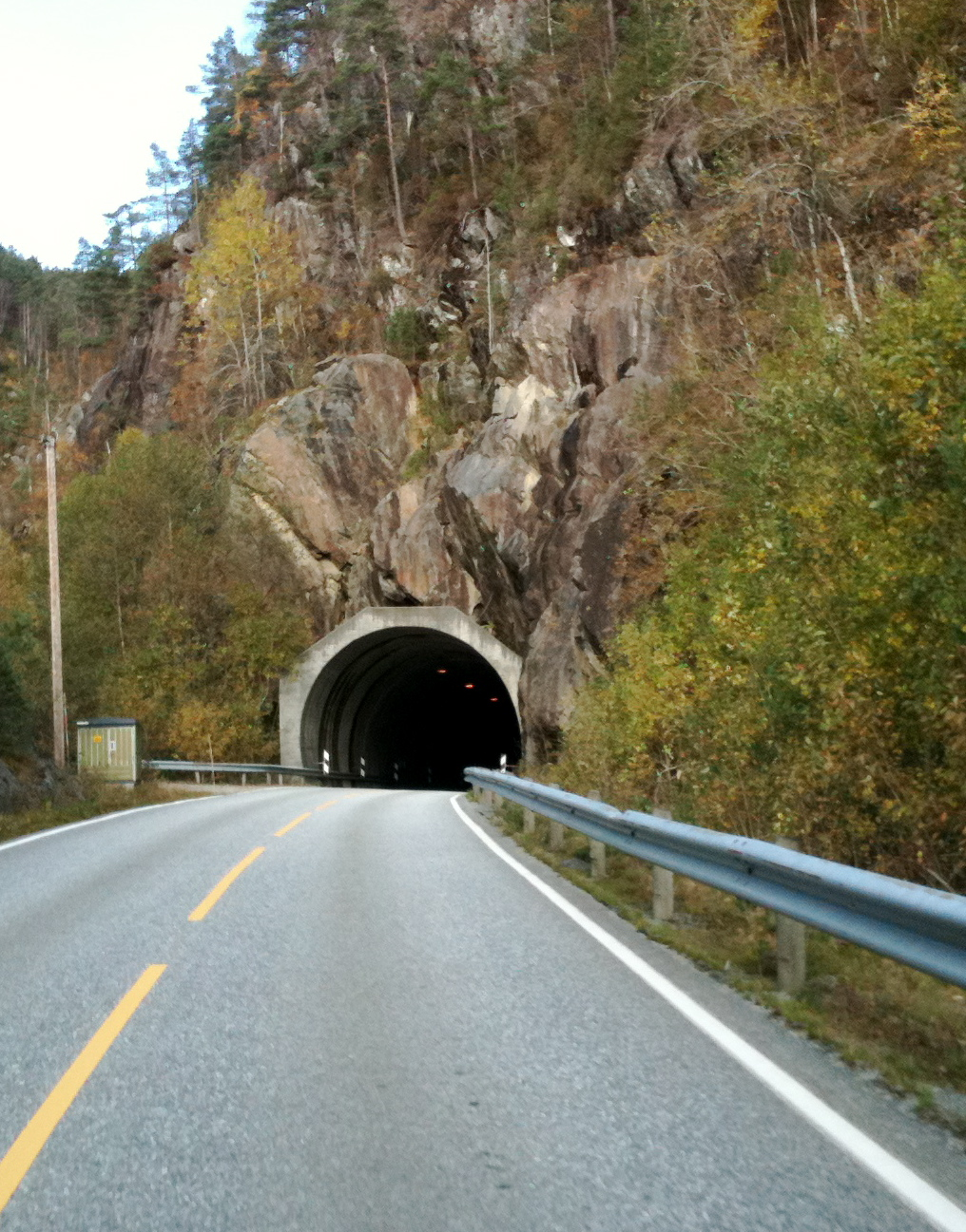 Drengstigtunnelen in the municipality of Suldal in Rogaland, Norway